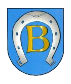 Coat of arms of Pforzheim Converted into PNG format and transparency added by Enslin.